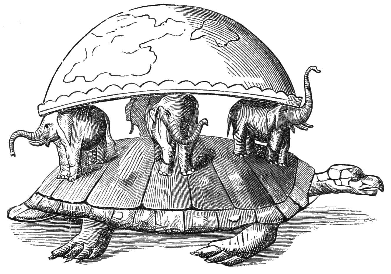 The Hindu Earth (published caption "Fig. 4—The Hindoo Earth.")